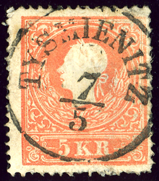 Austrian KK stamp issued in 1859 (type II) - cancelled TYSMIENITZ (Tysmenytsia), Galicia, Ukraine